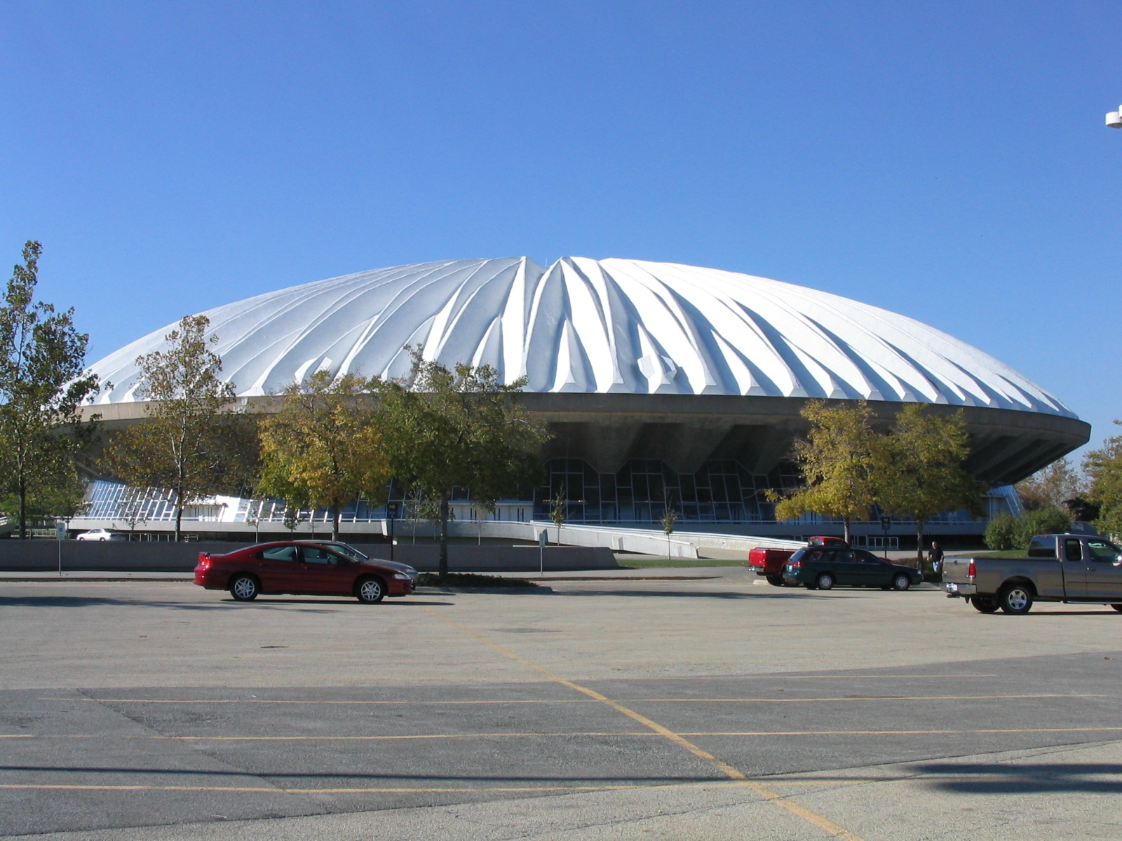 State Farm Center in Champaign, Illinois, on the campus of the University of Illinois at Urbana-Champaign. Image taken by Dori, uploaded on 10 December 2004.